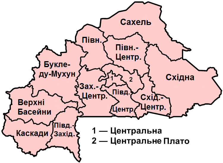 Map of the Administrative Regions of Burkina Faso